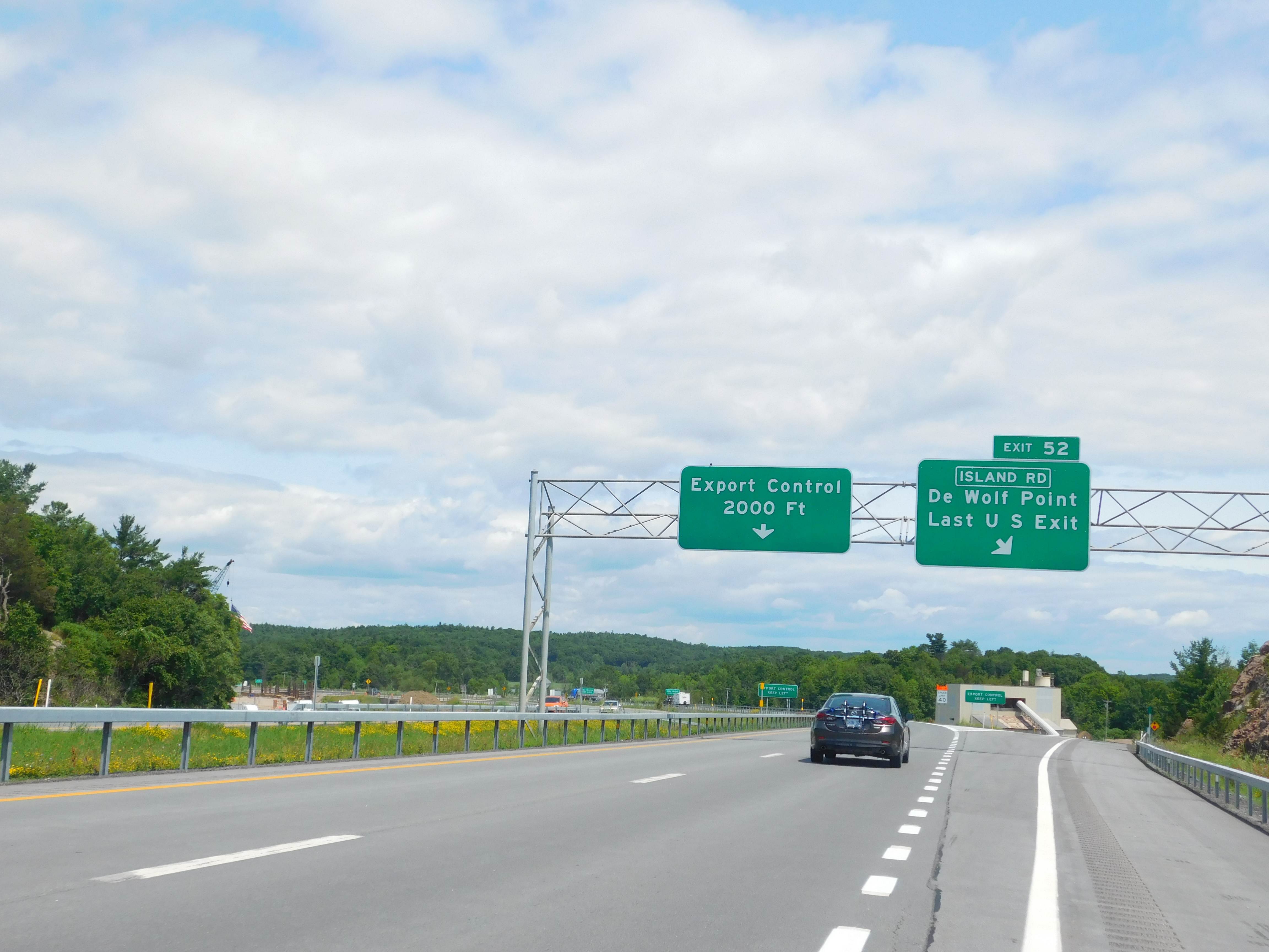 Interstate 81 in New York northbound at exit 52.